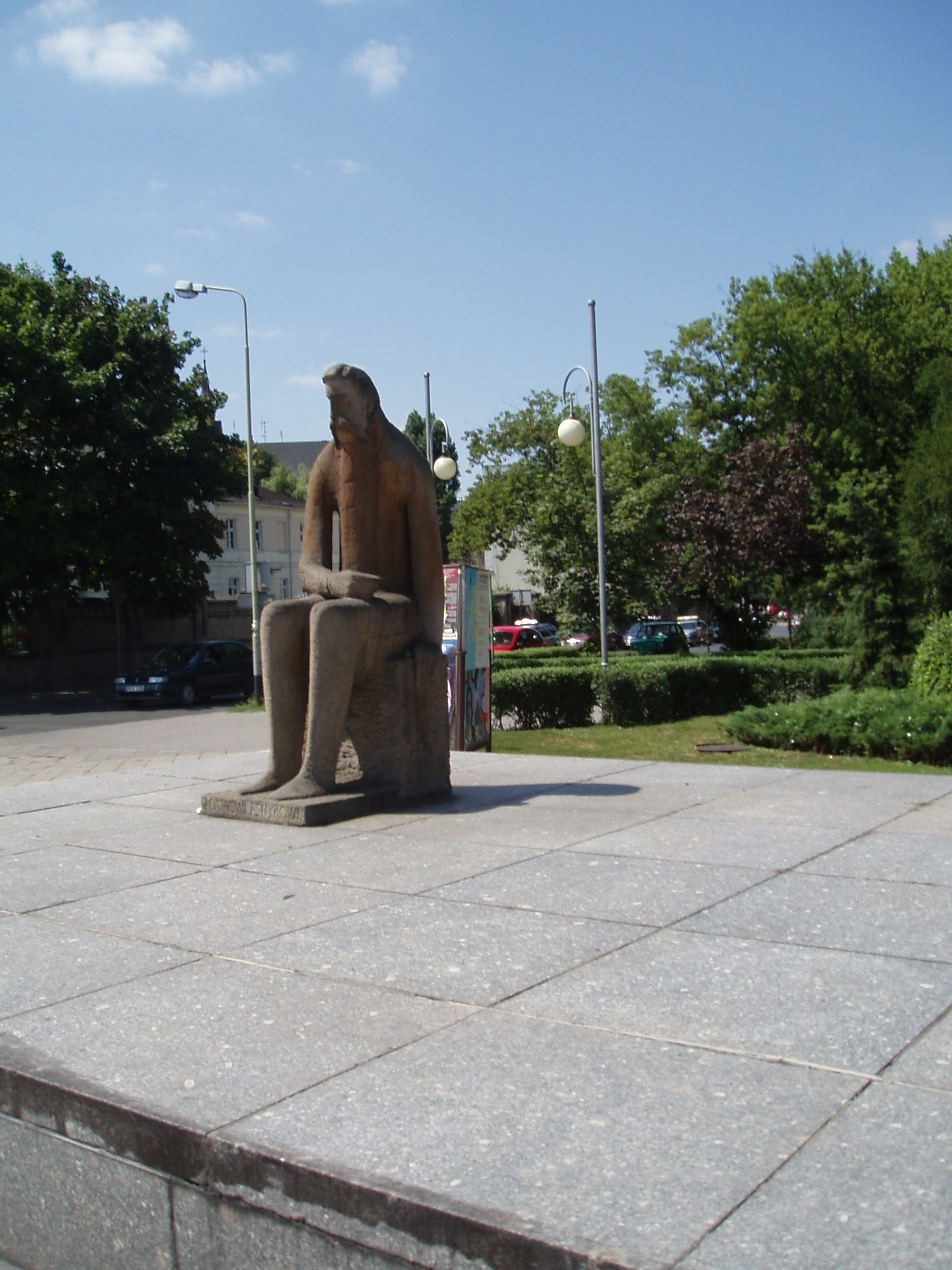 Asnyk statue in Kalisz.